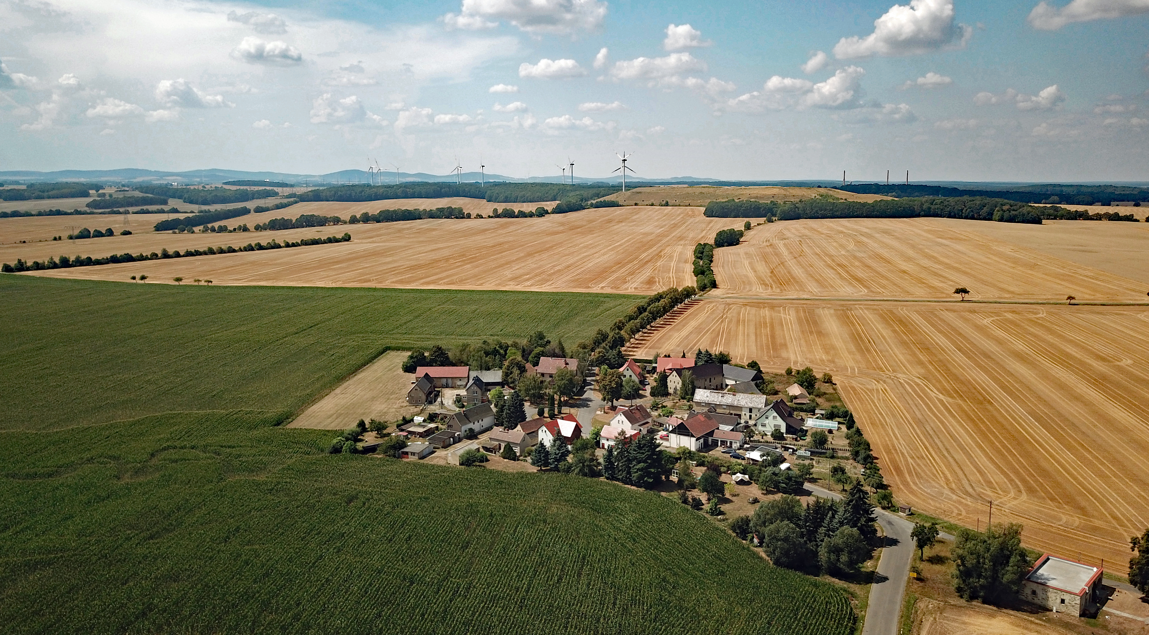 Krinitz (Neschwitz, Saxony, Germany)